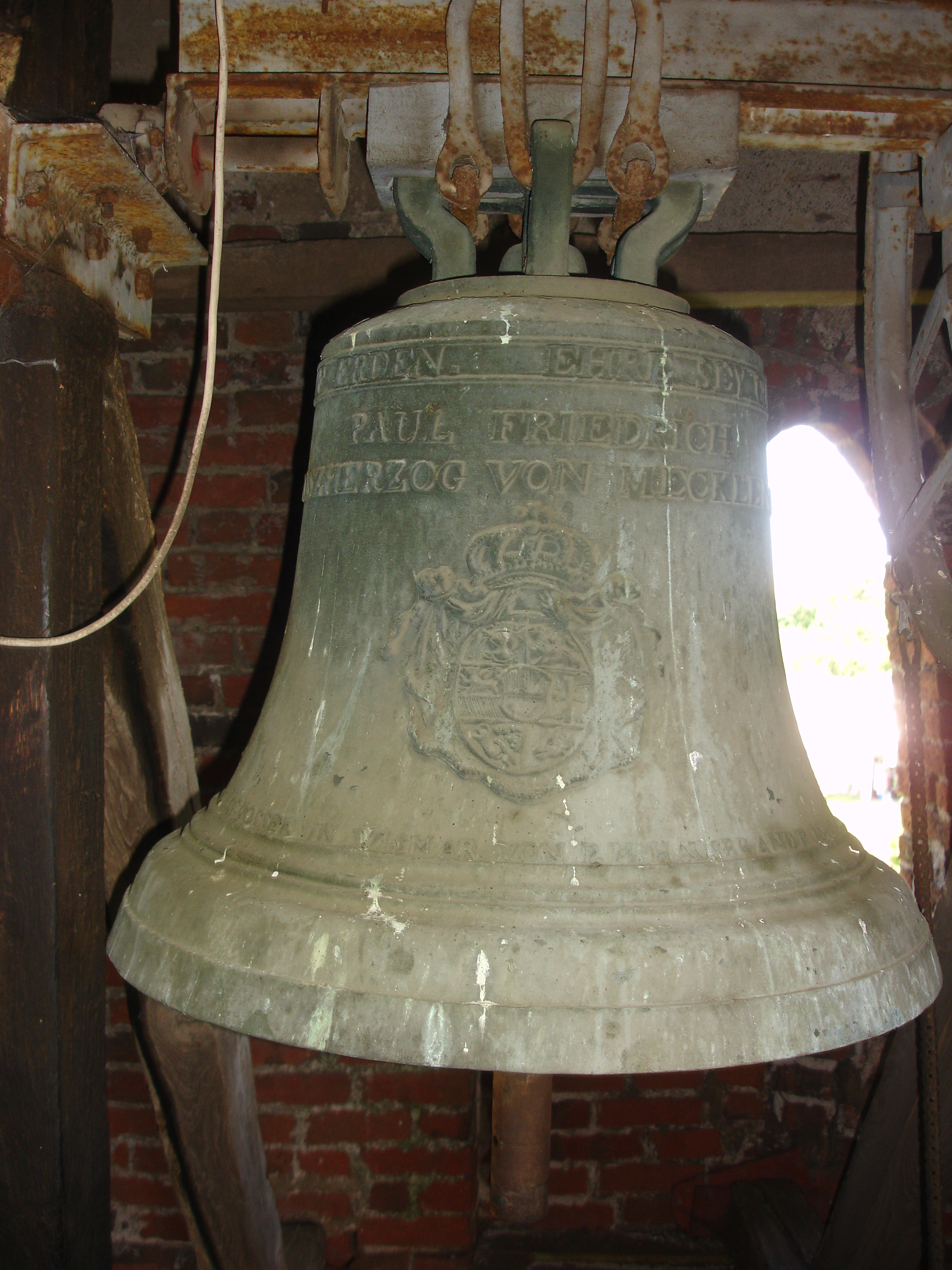 Bell of the church in Bössow, district Nordwestmecklenburg, Mecklenburg-Vorpommern, Germany